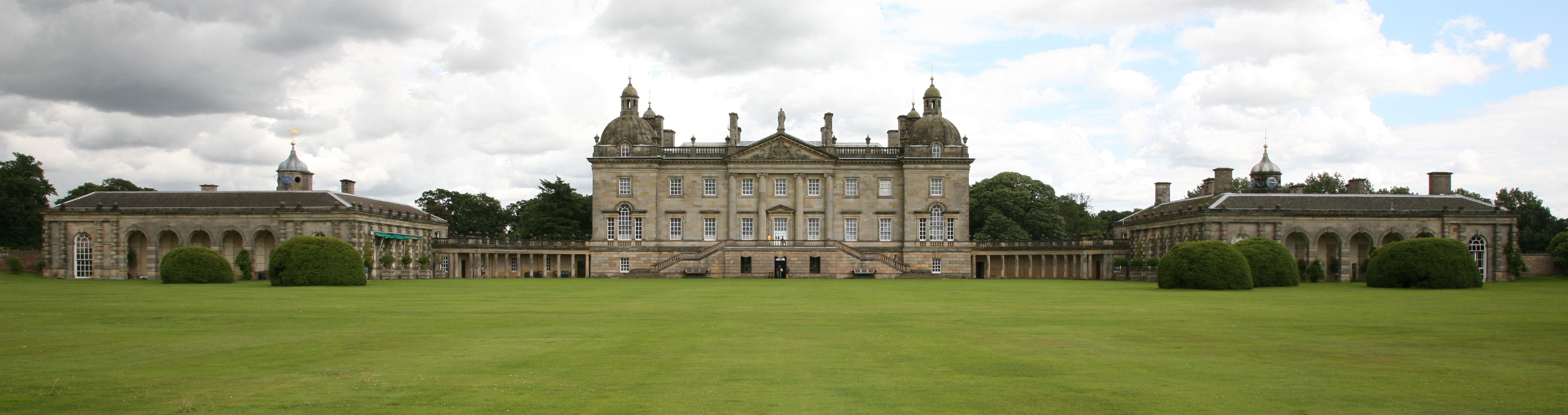 Houghton Hall in Norfolk is an important Palladian building. The architects were Colen Campbell, who began the building, James Gibbs, who added the domes, and William Kent. The west front.